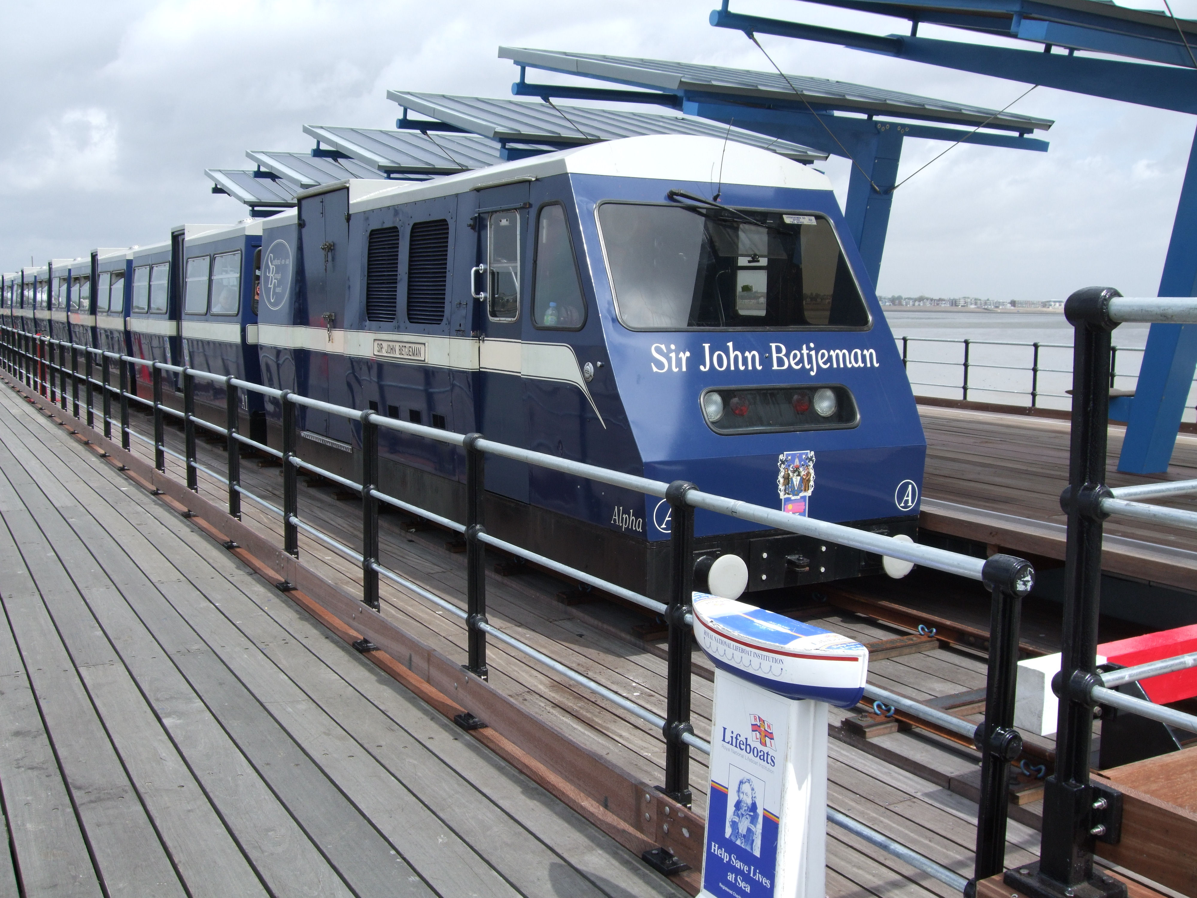 Sir John Betjeman once said that "the Pier is Southend, Southend is the Pier" 7 solar panels above the platform.